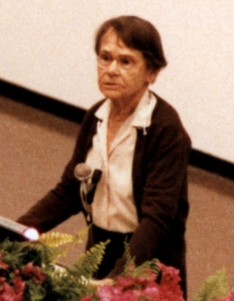 McClintock giving her Nobel Lecture at Karolinska Institute in Stockholm during the week of the Nobel Prize ceremony.